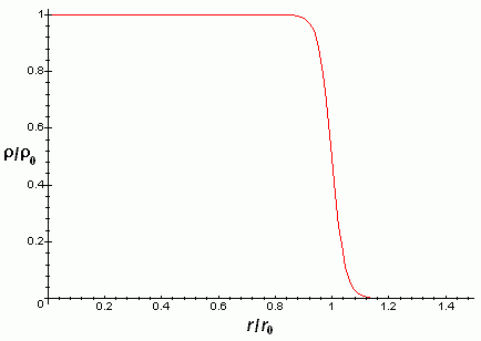 Nuclear density plot for a spherically symmetric nucleus, acording to the formula rho/rho_0 = 1/[1 + exp (r-r0)/(0.288*a)] (plot shown a = 0.1*r0, r0 = nucleus radius, r = radial coordinate).